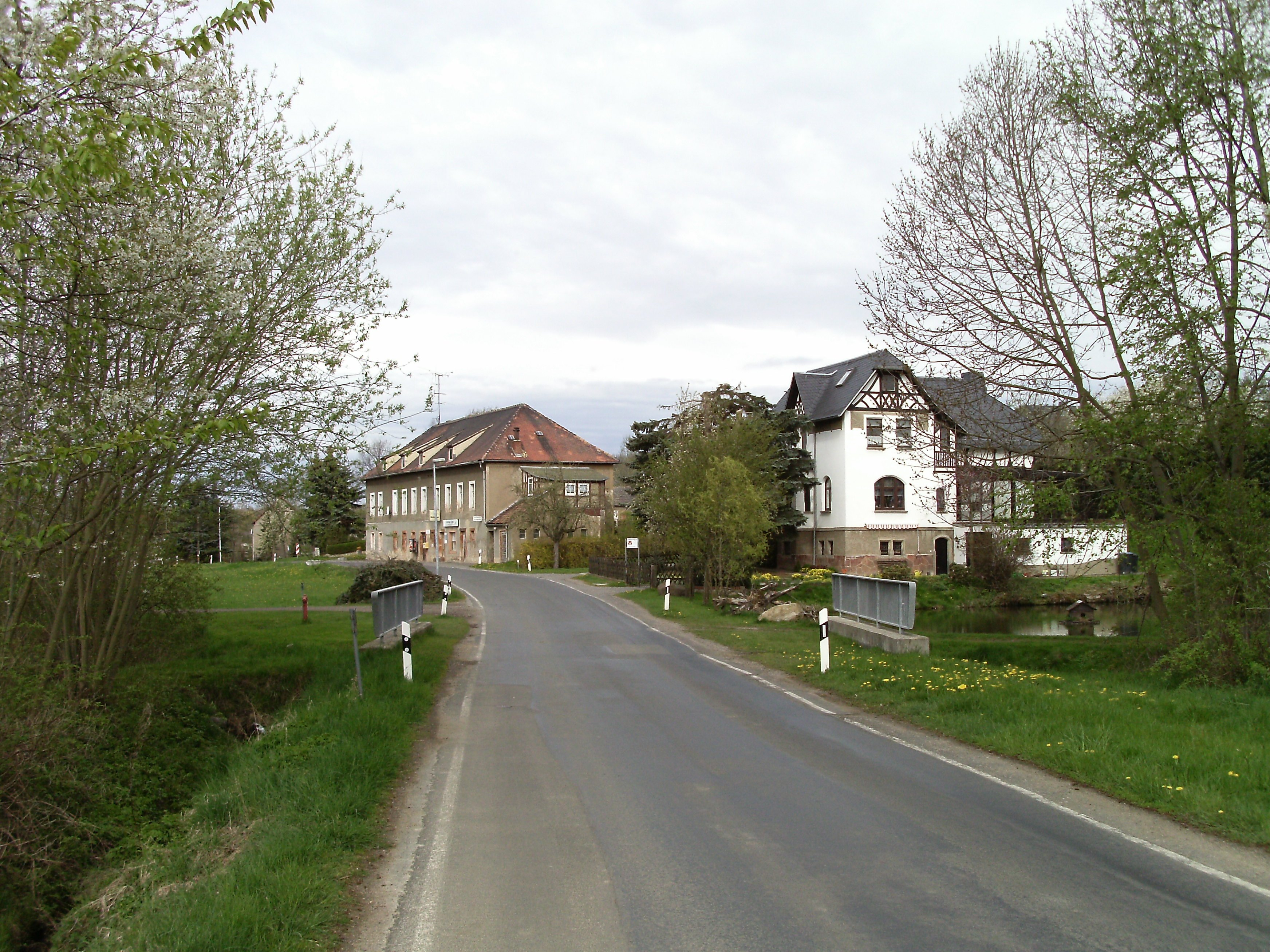 At Untere Dorfstrasse in Narsdorf (Leipzig district, Saxony)